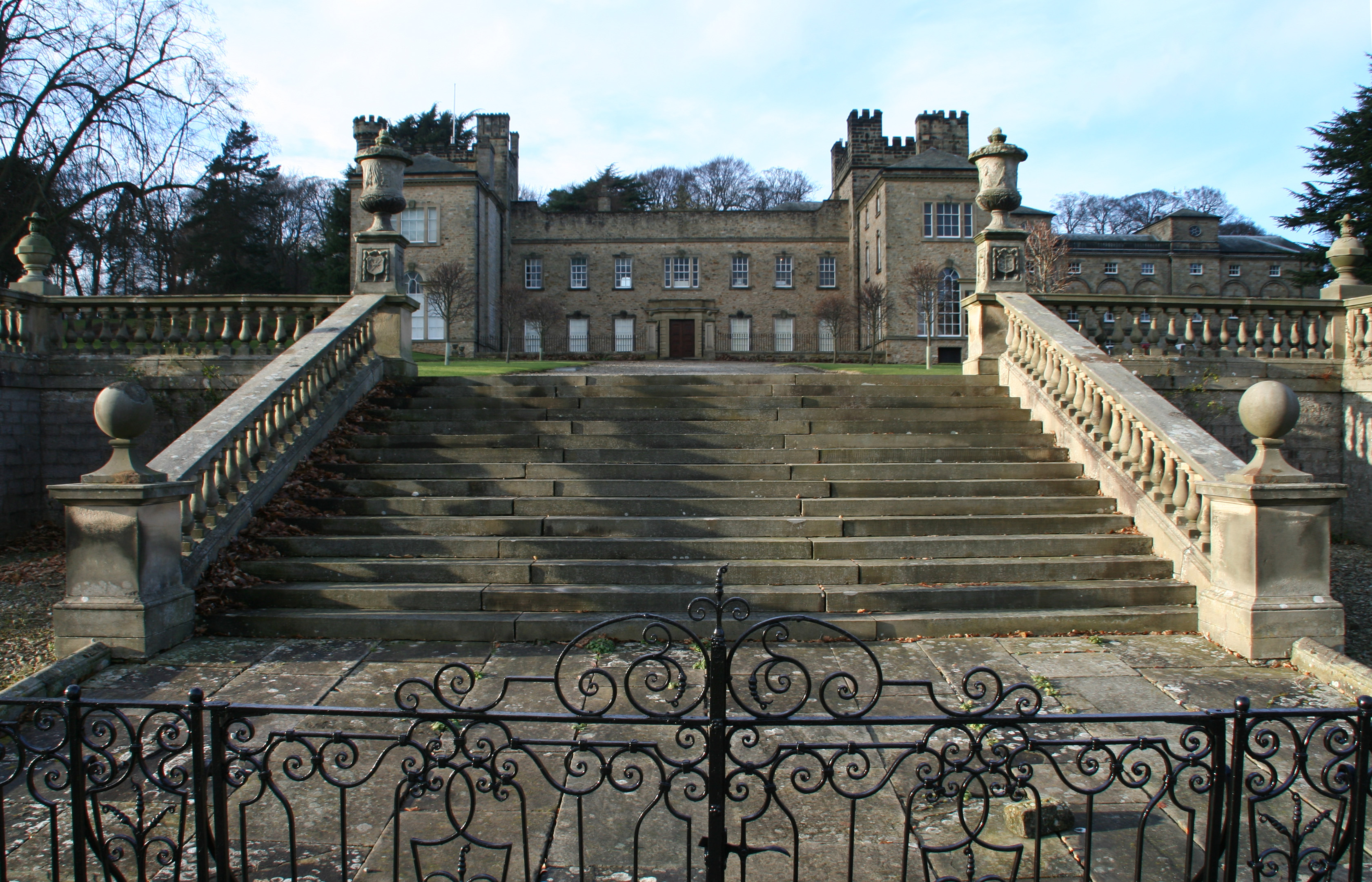 Aske Hall, - a Georgian country house with parkland attributed to Capability Brown. The hall and estate are currently owned by the Marquess of Zetland. The Hall is open to the public (for guided tours only) on a very limited number of days per year.